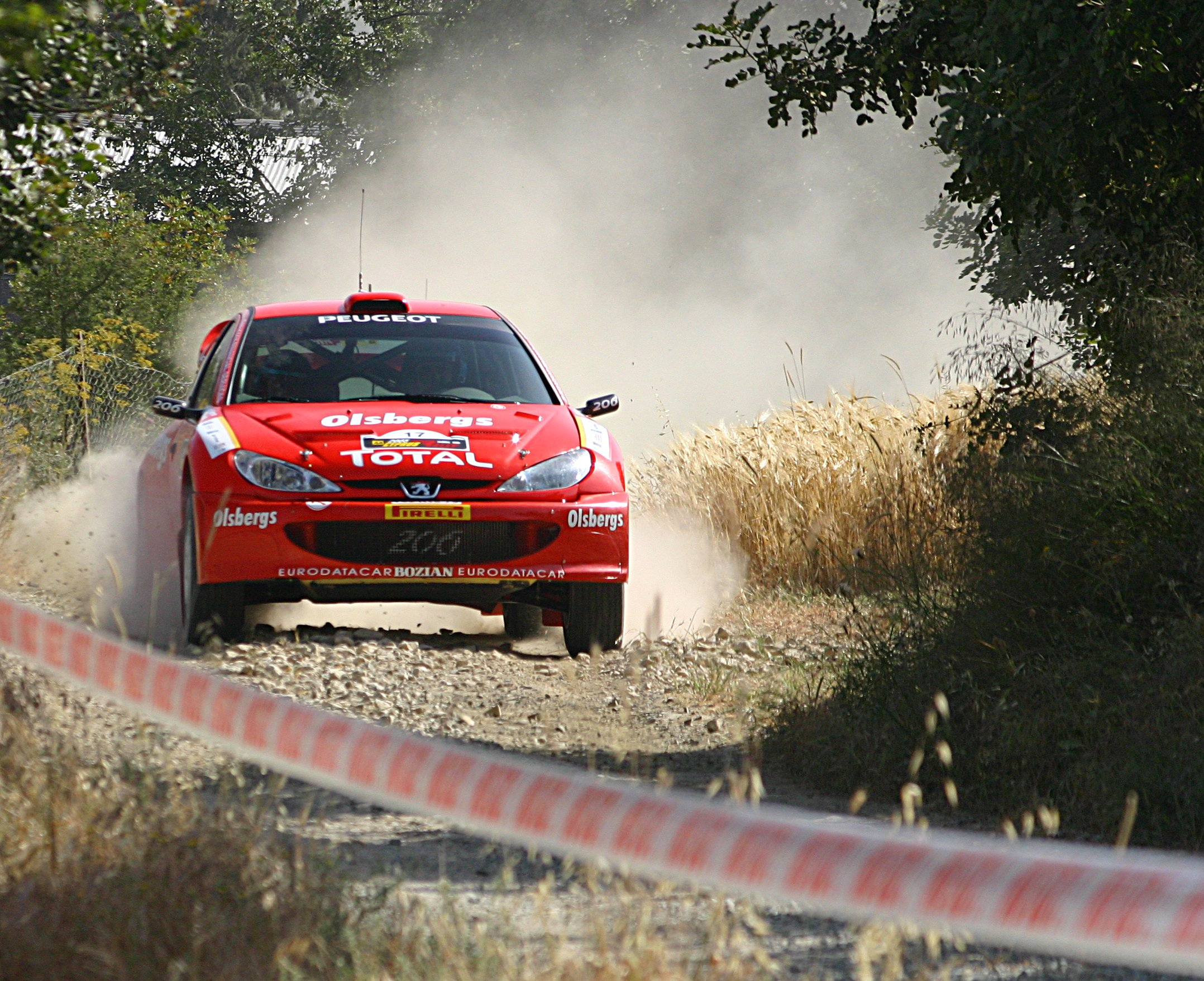 Daniel Carlsson driving his Peugeot 206 WRC at the 2005 Cyprus Rally.